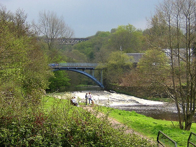 Avon Water at Millheugh Bridge. A disused railway viaduct can be seen in the background.